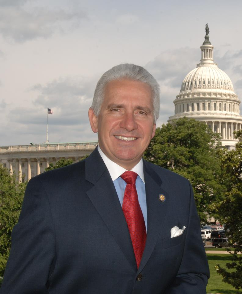 Jim Costa official photo